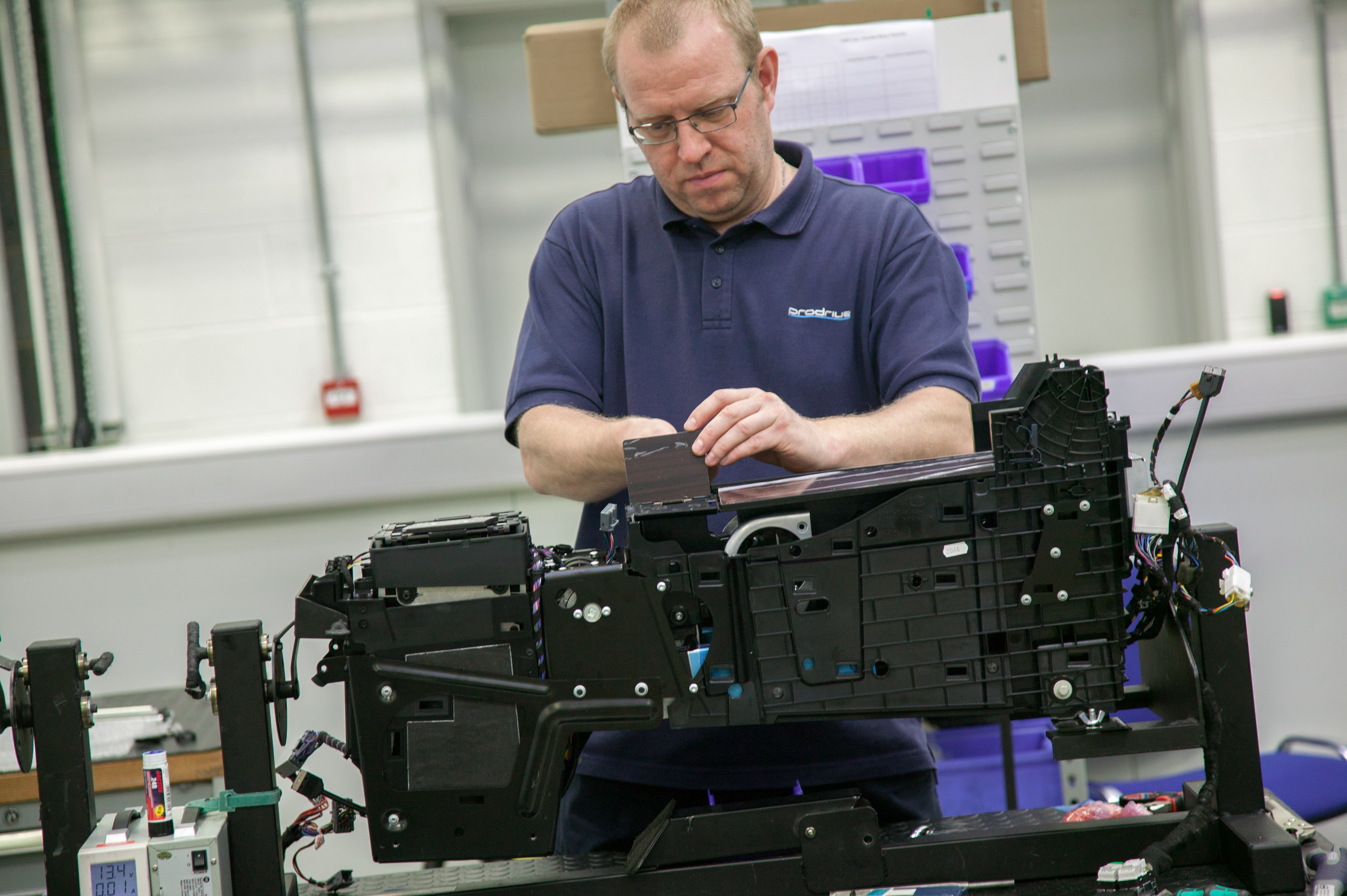 Prodrive designed and manufactures the rear centre console module for the Range Rover Autobiography Black at its headquarters in Banbury.